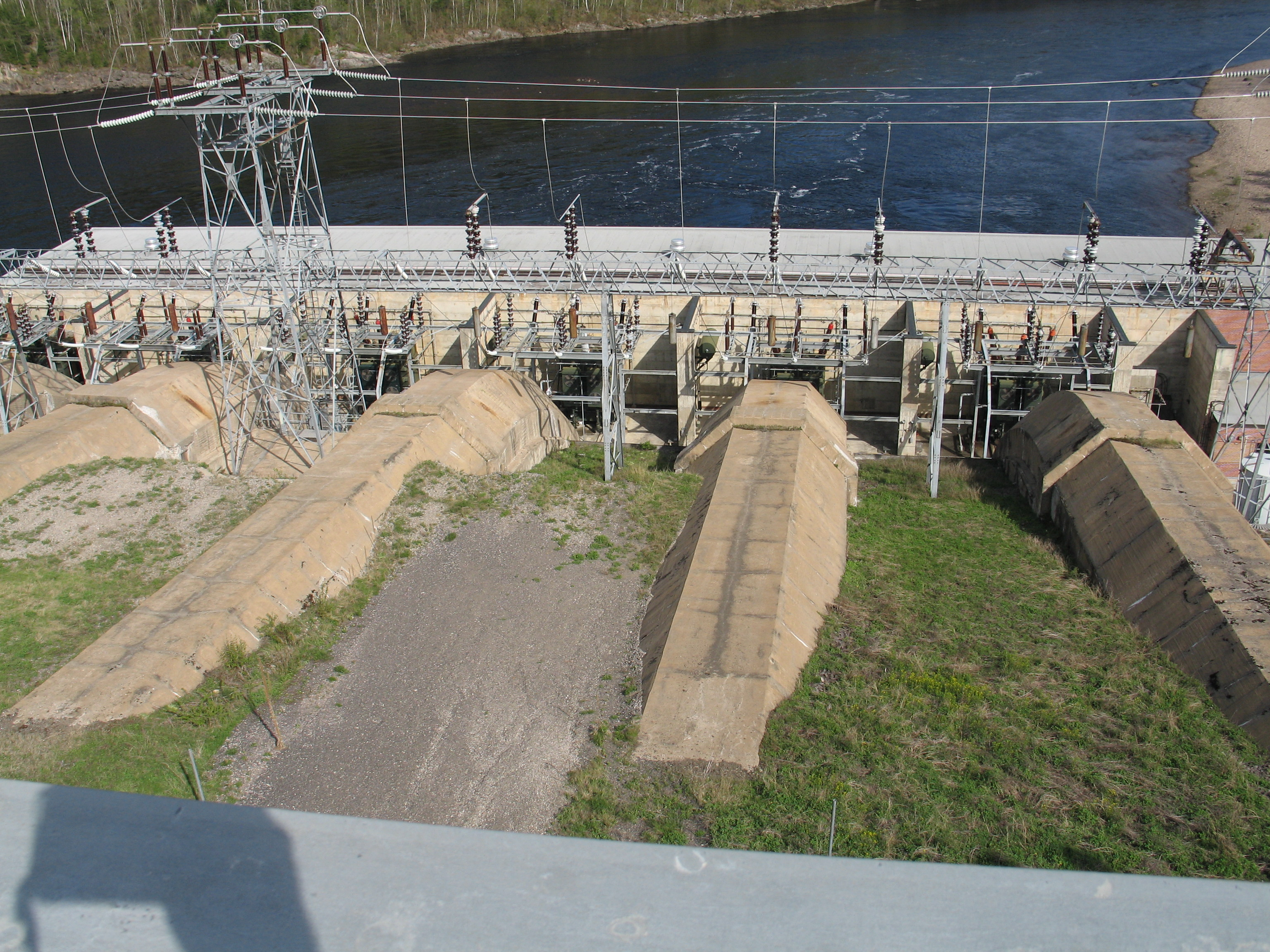 Penstocks at Hydro-Québec's Trenche generating station, north of La Tuque, Quebec. This 302-MW power station has been inaugurated in 1950.